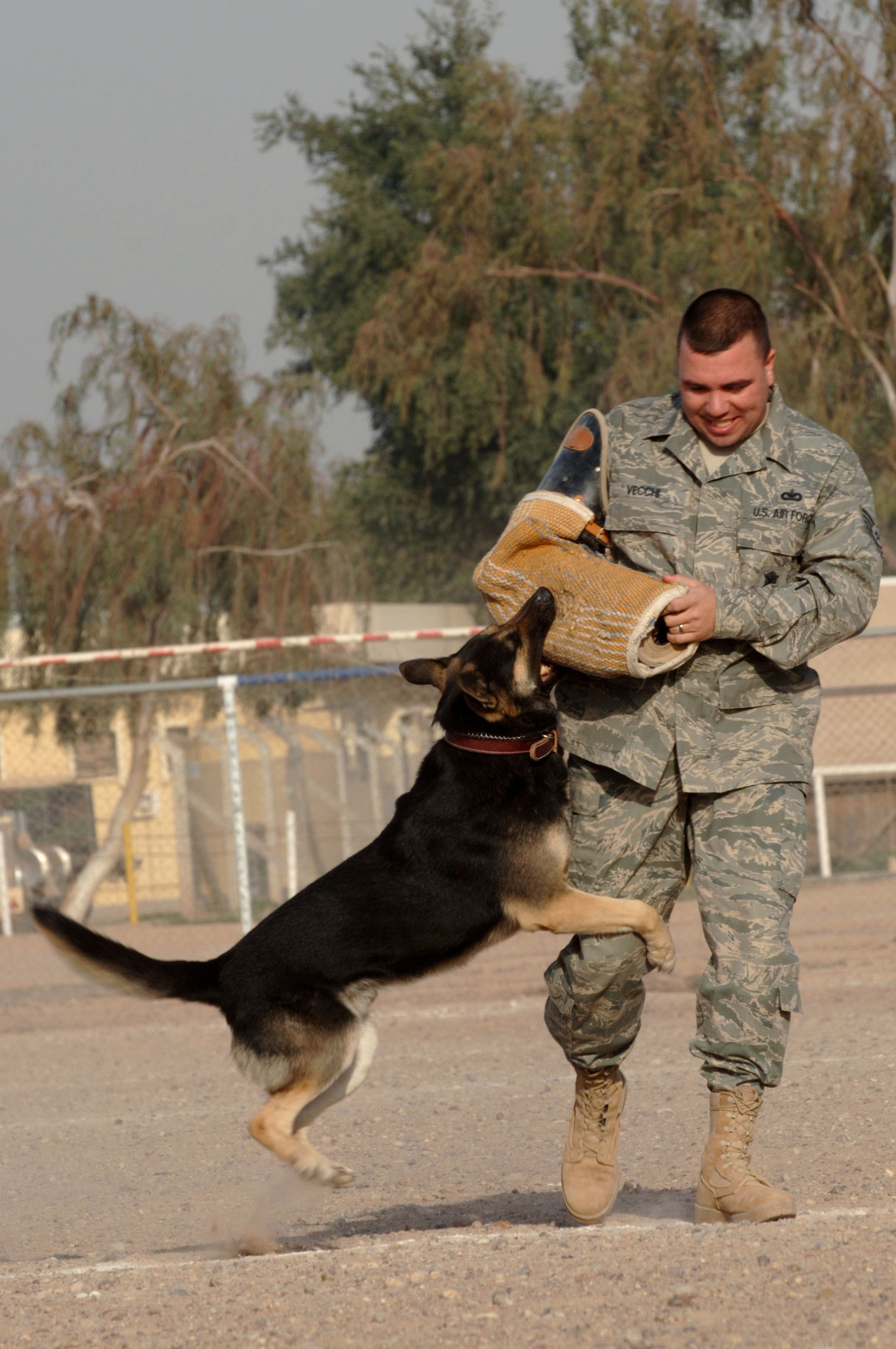 Tech. Sgt. Dominic Vecchi, a military working dog handler and kennel master assigned to the 732nd Expeditionary Security Forces Squadron, uses an arm wrap to train a MWD at the Joint Base Balad, Iraq, kennel. Vecchi, a joint expeditionary tasked Airman, is currently supporting the Army in Iraq. Vecchi is deployed from Barksdale Air Force Base, La., and his hometown is Wilkes-Barre, Pa. The dog's name is Staff Sgt. Nol.